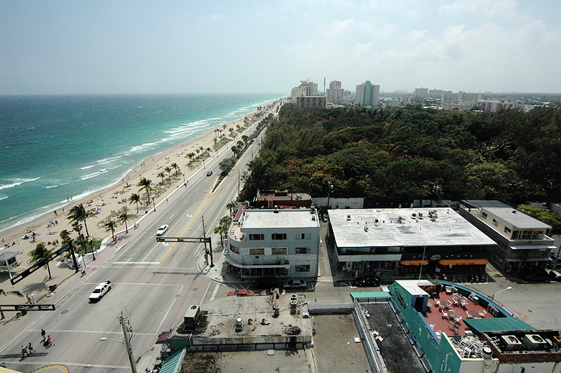 Fort Lauderdale Beach, Florida, USA, which lies along State Route A1A.A Beach Strip